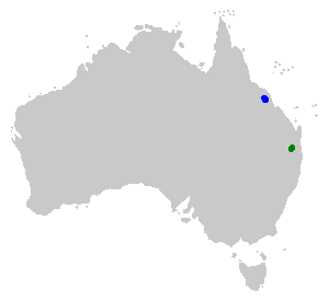 The former distributions of the gastric-brooding frogs Rheobatrachus silus (green) and Rheobatrachus vitellinus (blue).